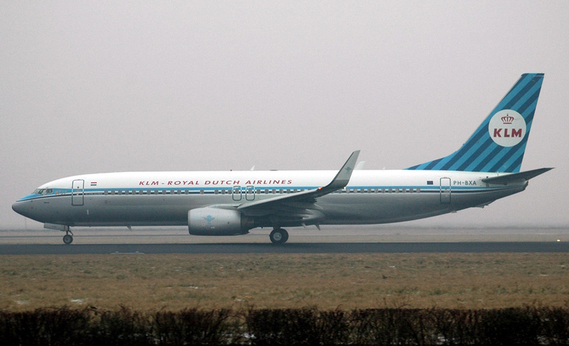 PH-BXA, a KLM Boeing 737-800 painted in a retro color scheme